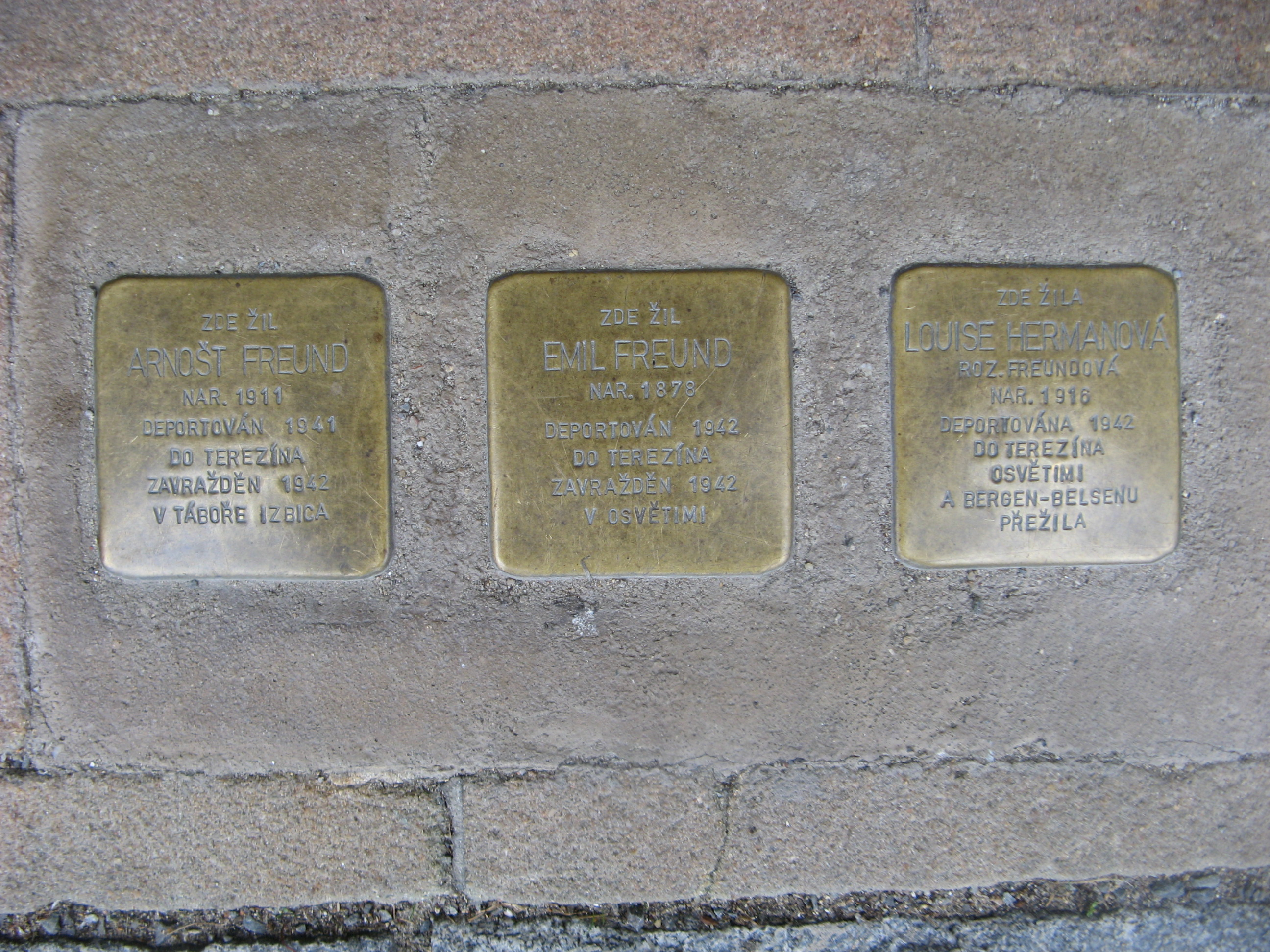 Stolpersteine in Svitavy, Náměstí Míru n. 97, Czech republic